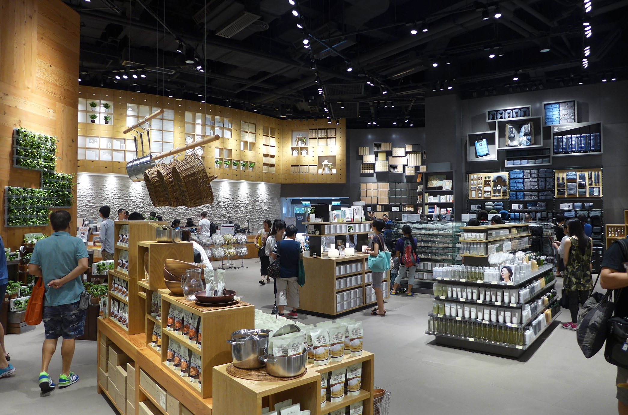 Muji Olympian City interior